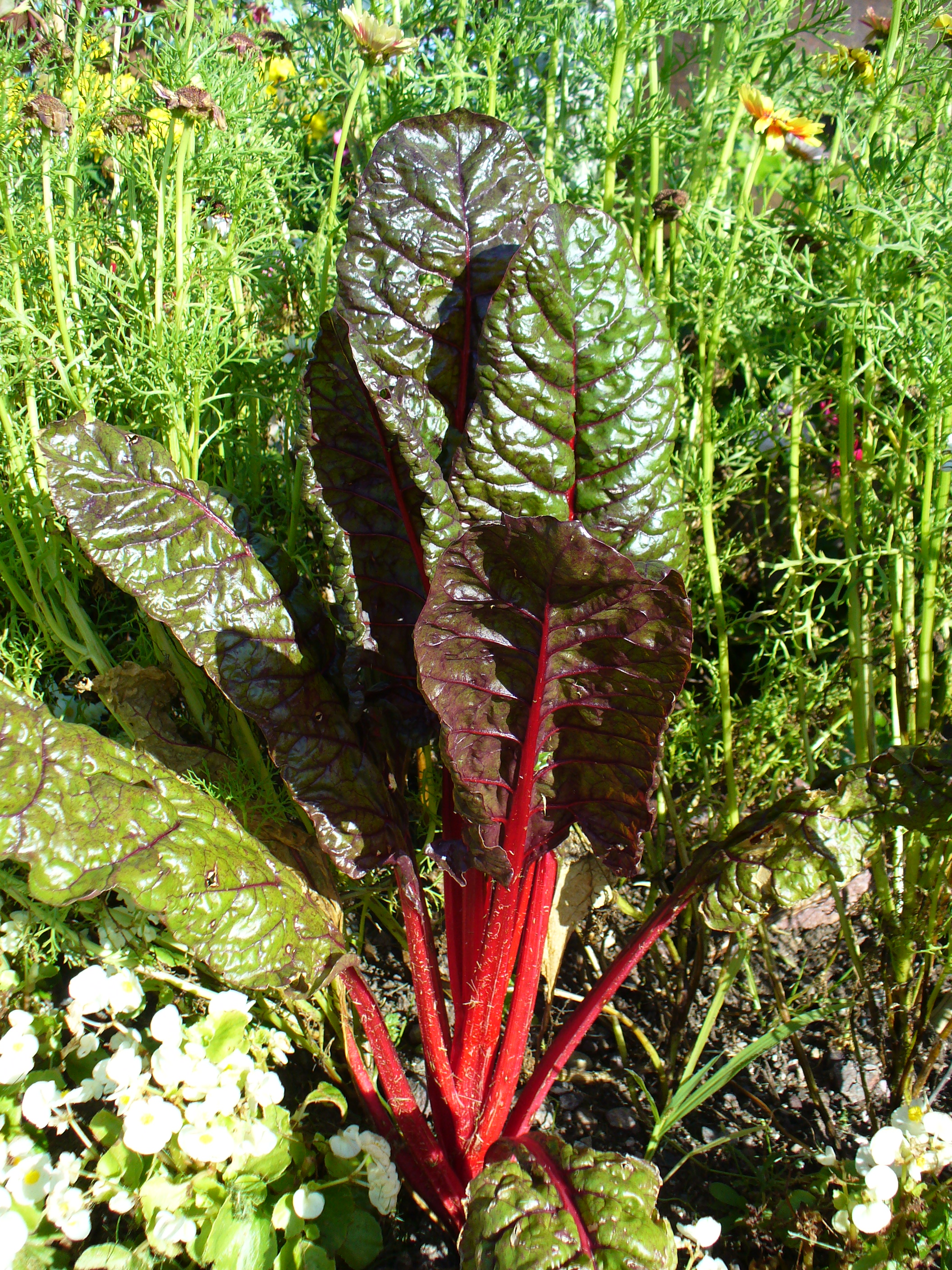 I am the originator of this photo. I hold the copyright. I release it to the public domain. This photo depicts a plant.